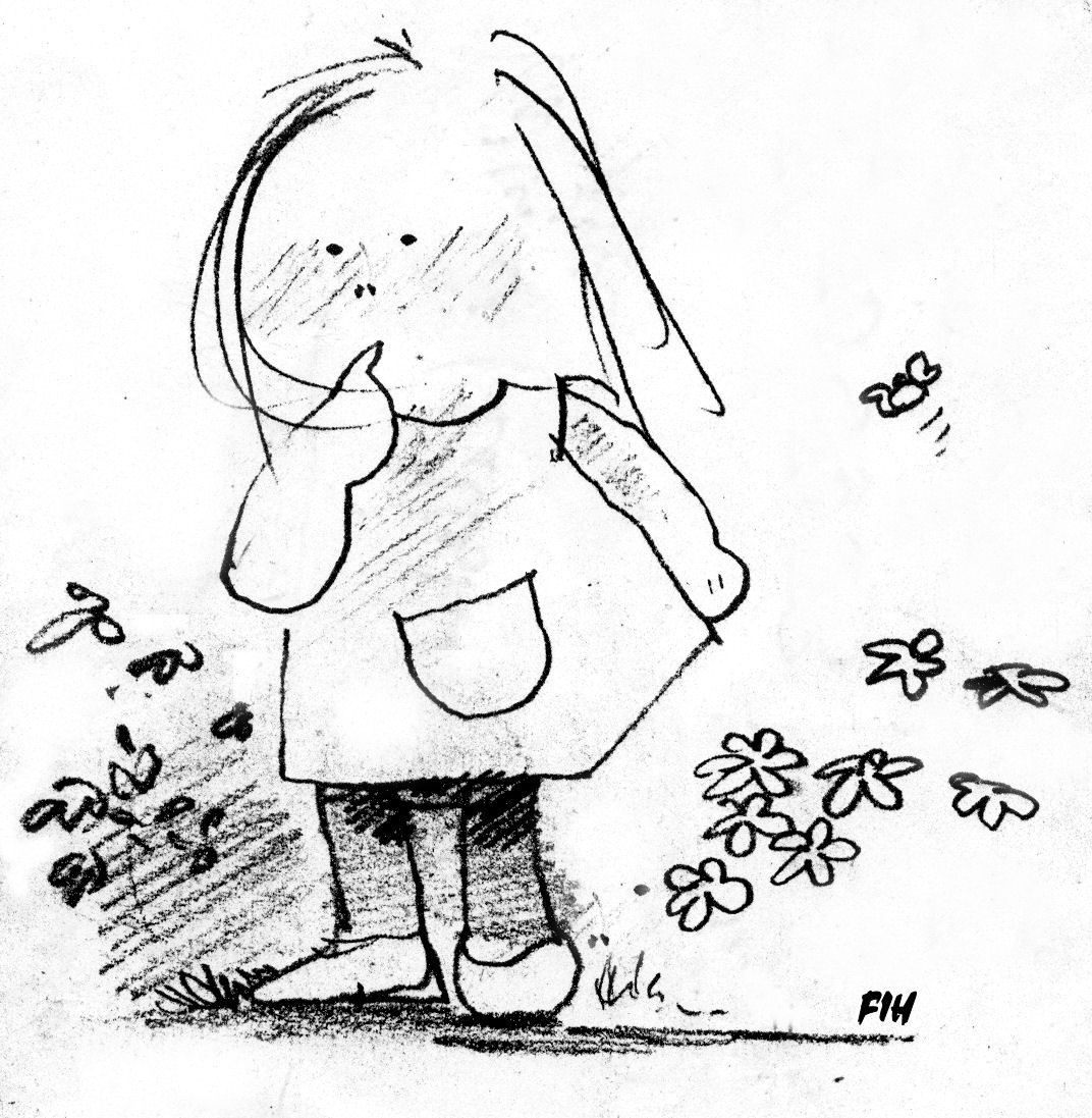 This photo was taken by Frode Inge Helland. Please credit this photo Frode Inge Helland in the immediate vicinity of the image. Vignette. I wonder . . .